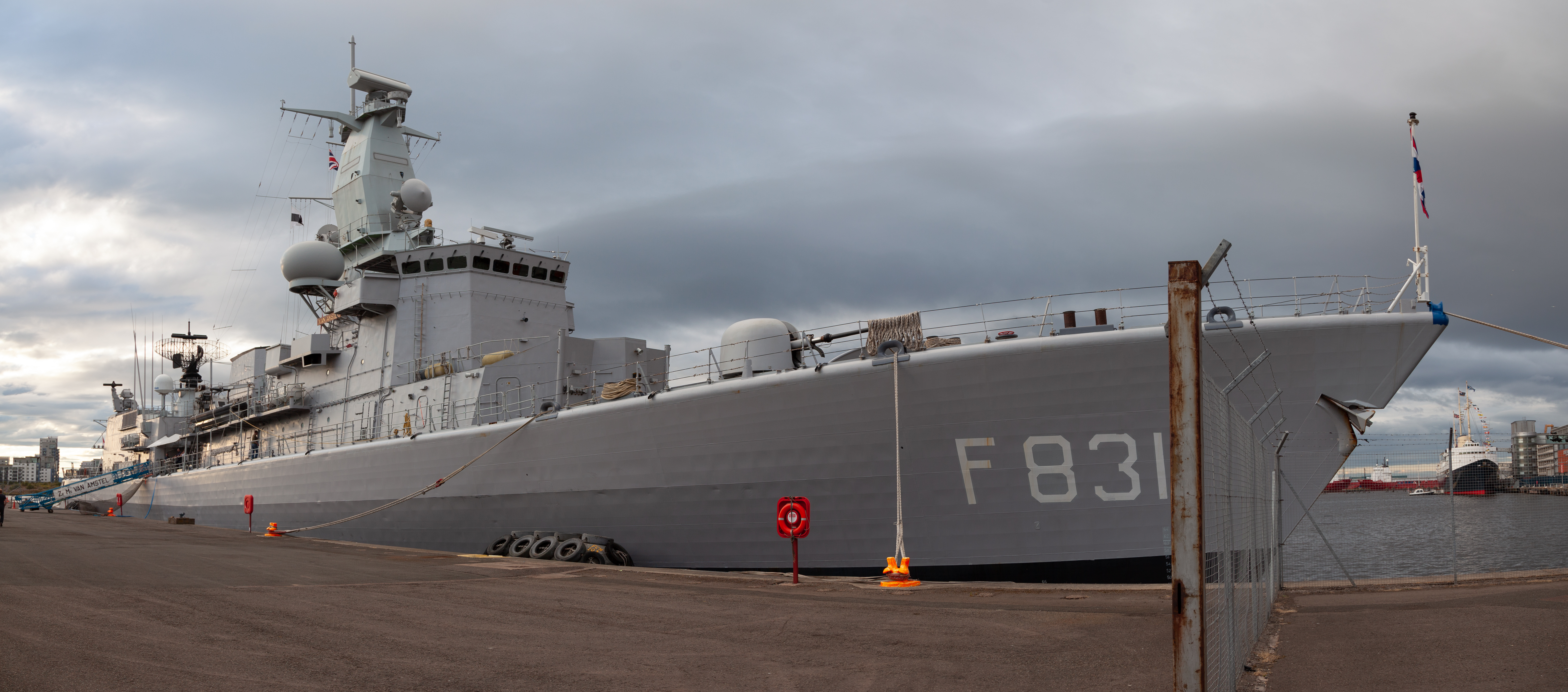 HNLMS Van Amstel (F831) at Leith, 2018